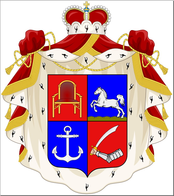 coat arms of Chavchavadze princes.